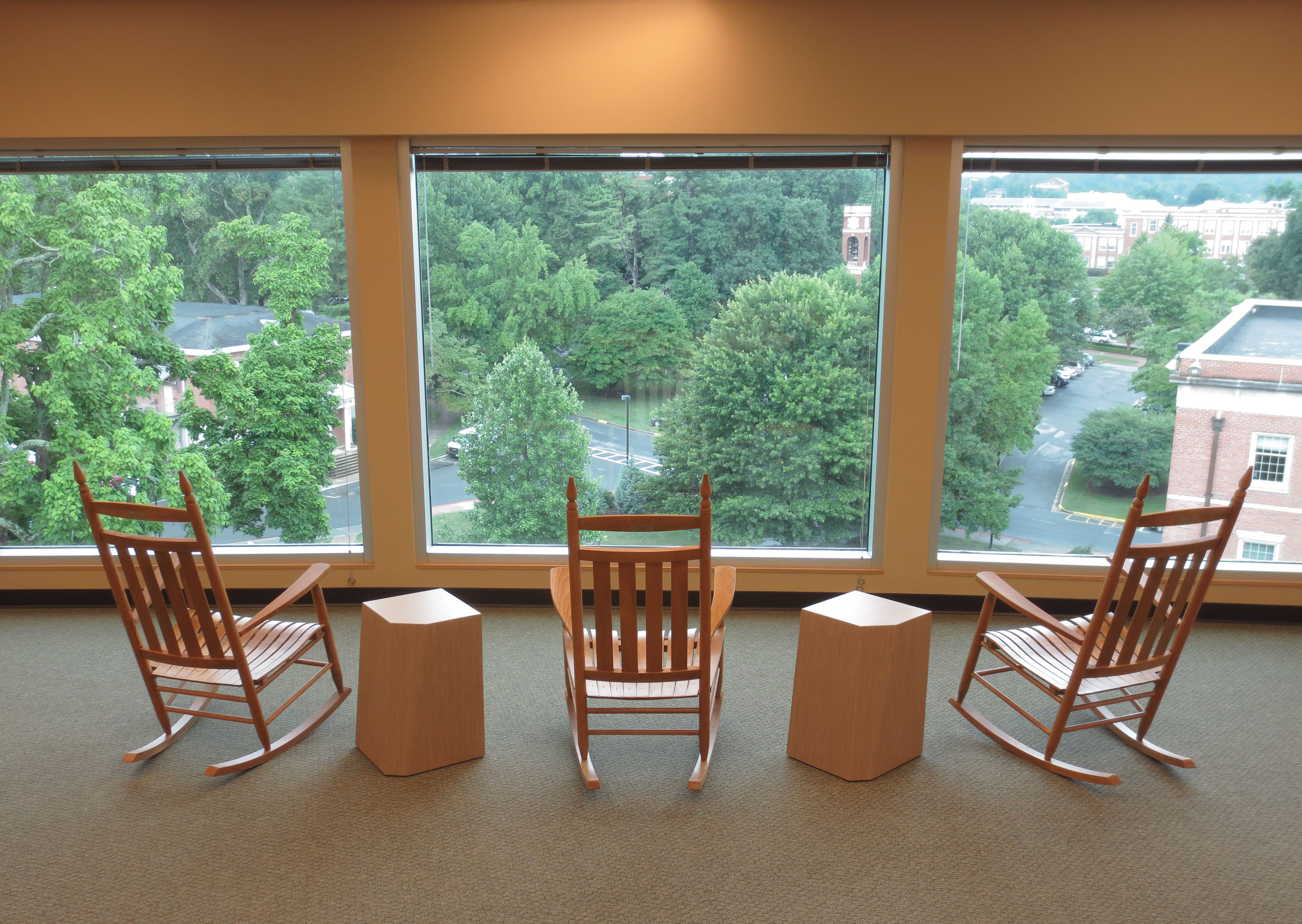 Archives of Appalachia, Reading Room View